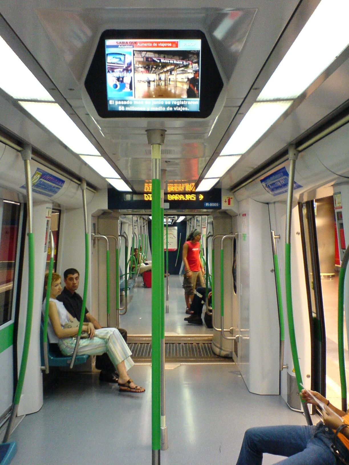 A train of Madrid's metro line 8 at Barajas station